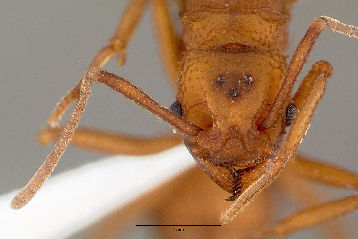 Head view of ant Trachymyrmex nogalensis specimen casent0000364.